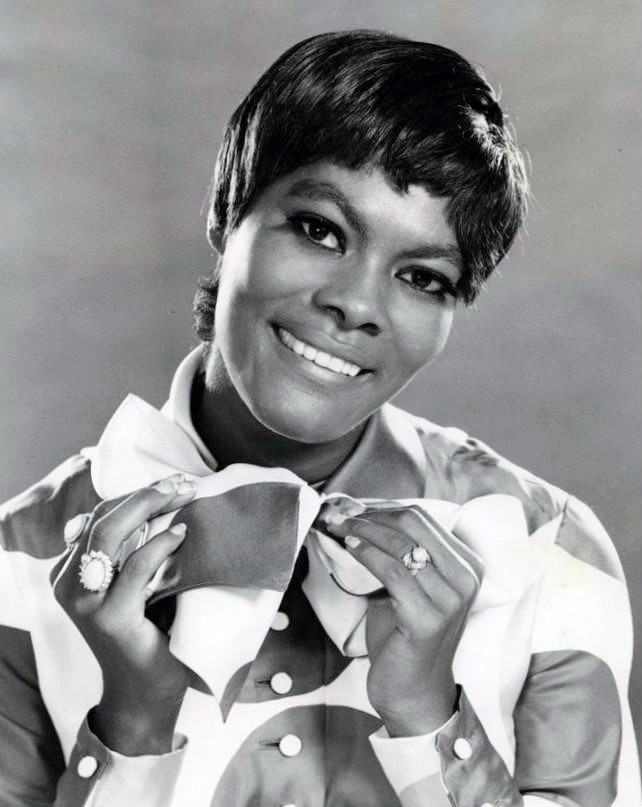 Publicity photo of singer Dionne Warwick from her 1969 television special